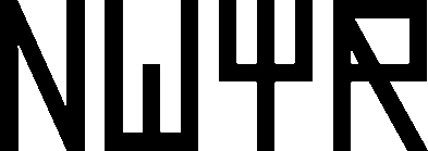 Logo ofside-project "NWYR"